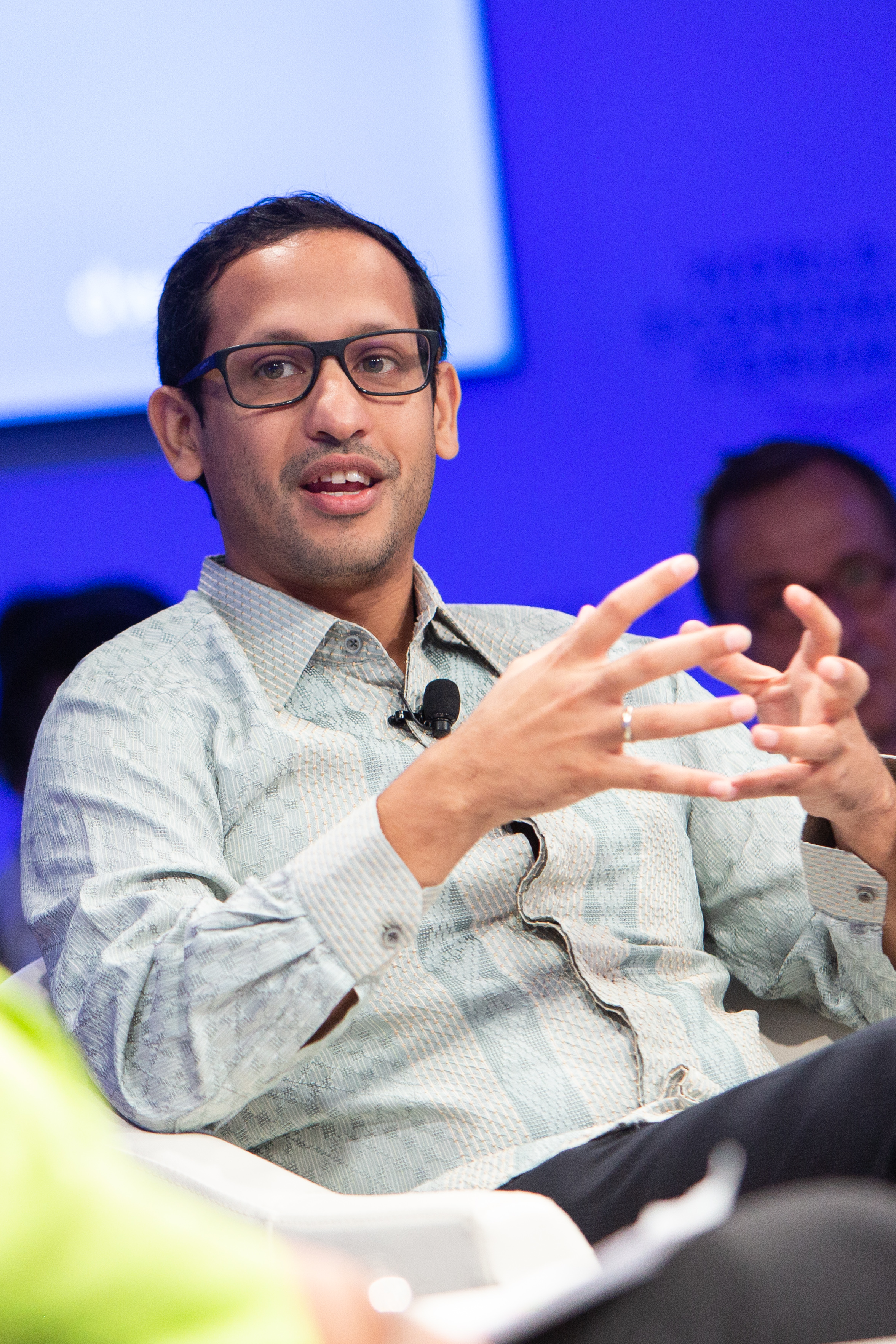 Nadiem Makarim, Chief Executive Officer, GO-JEK, Indonesia capture during the session: Accelerating Inequality Reduction at the World Economic Forum on ASEAN 2018 in Ha Noi, Viet Nam, September 12, 2018.